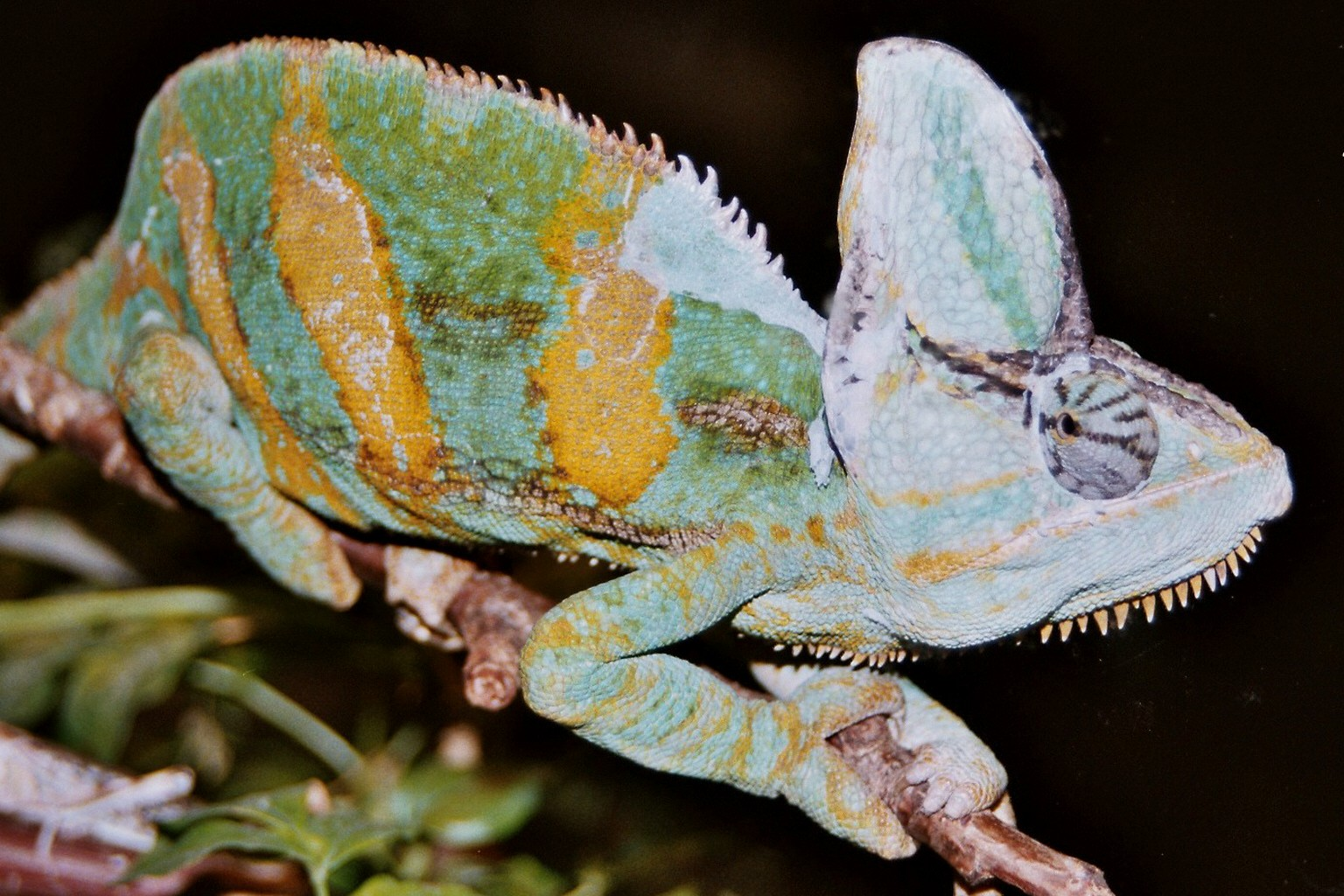 Chamaelio calyptratus